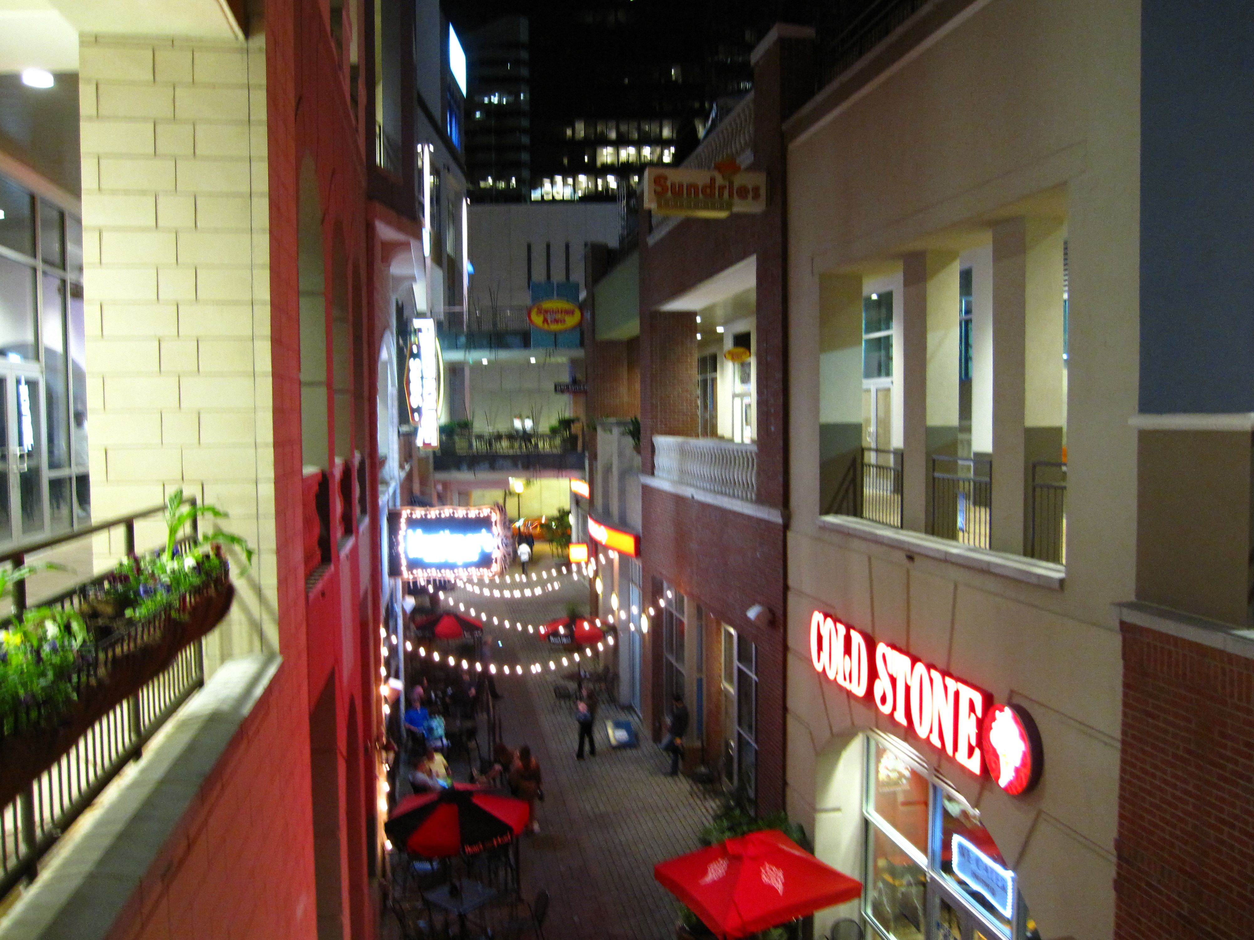 Epicenter in Charlotte, NC at night